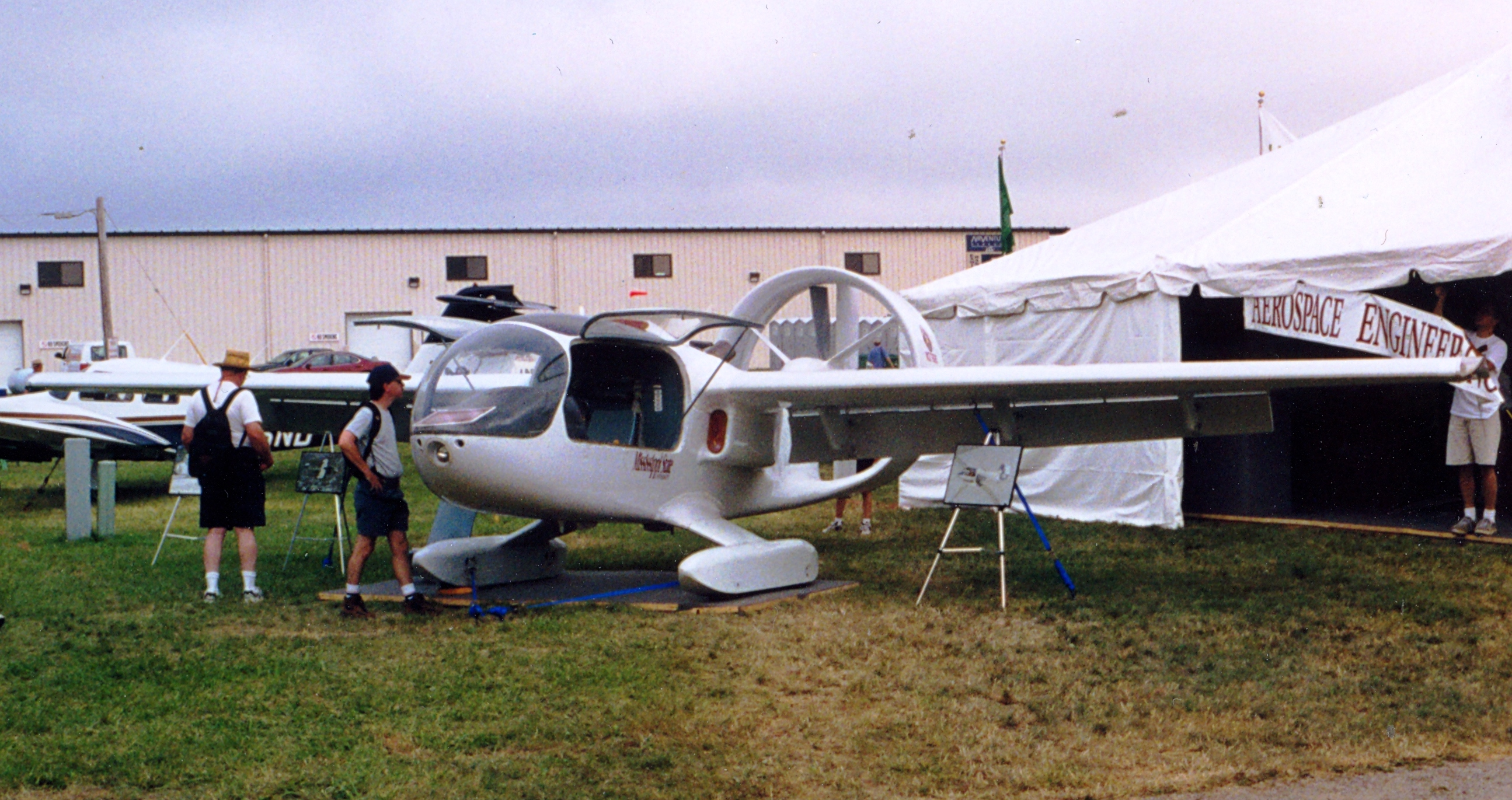 XV-11 Marvell